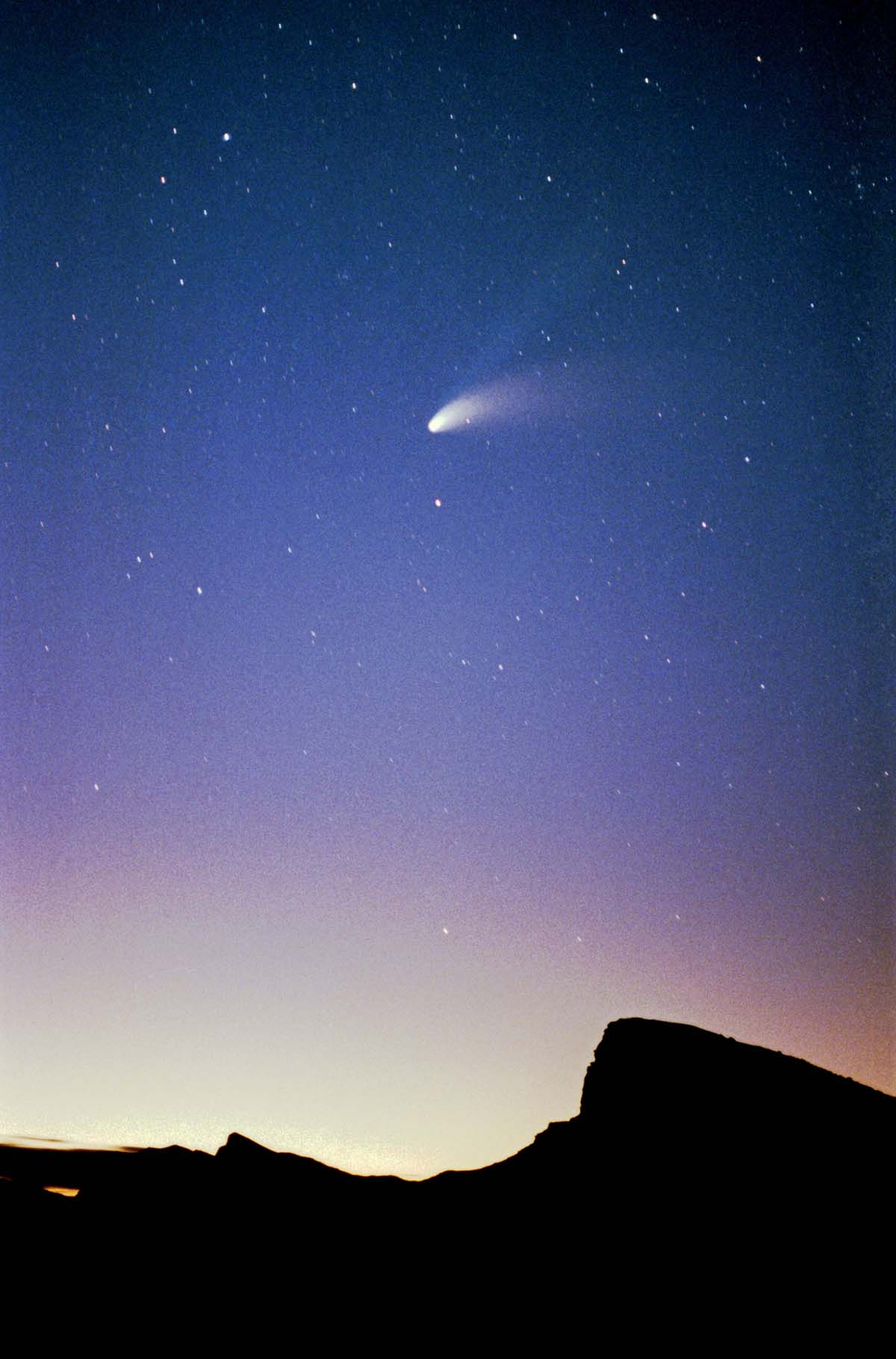 Comet Hale-Bopp. Author shot this image at Zabriskie Point in Death Valley in April 1997.